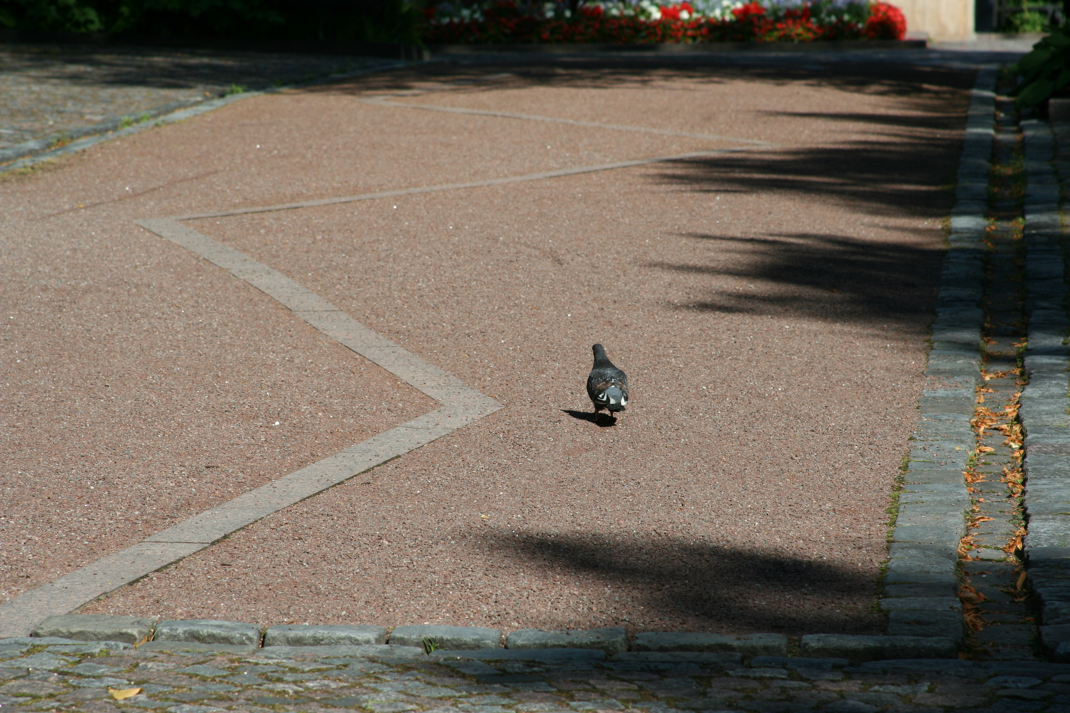 Paasivuori park, Helsinki, Finland. A work of environmental art "Punainen viiva" (The Red Line) made of red granite symbolizing "drawing the red line" as a method of voting in Finland during 1907-1935.